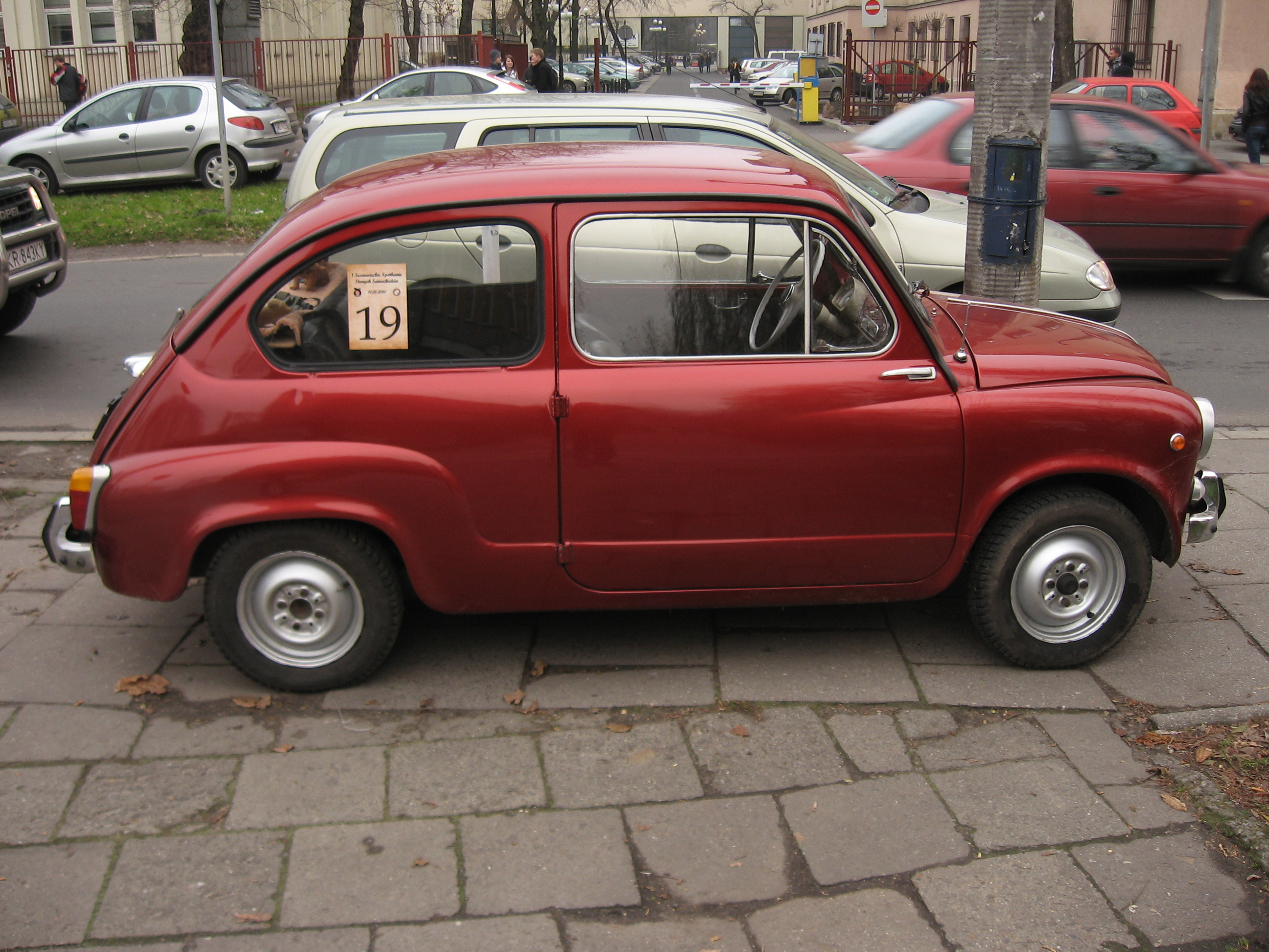 Zastava 750 on Reymonta street in Kraków.